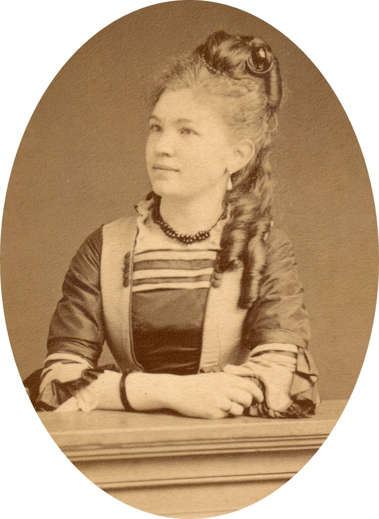 Irma Salamo circa 1875